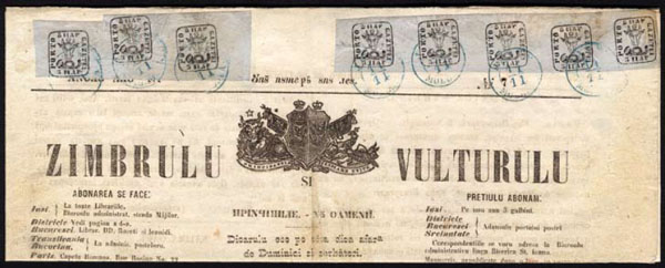 Newspaper "Zimbrulu şi Vulturulu" (The Aurochs and the Eagle), prepaid with the 1858 Moldavian Cap de bour stamps, 5 parale each, Moldova, second half of the 19th century.